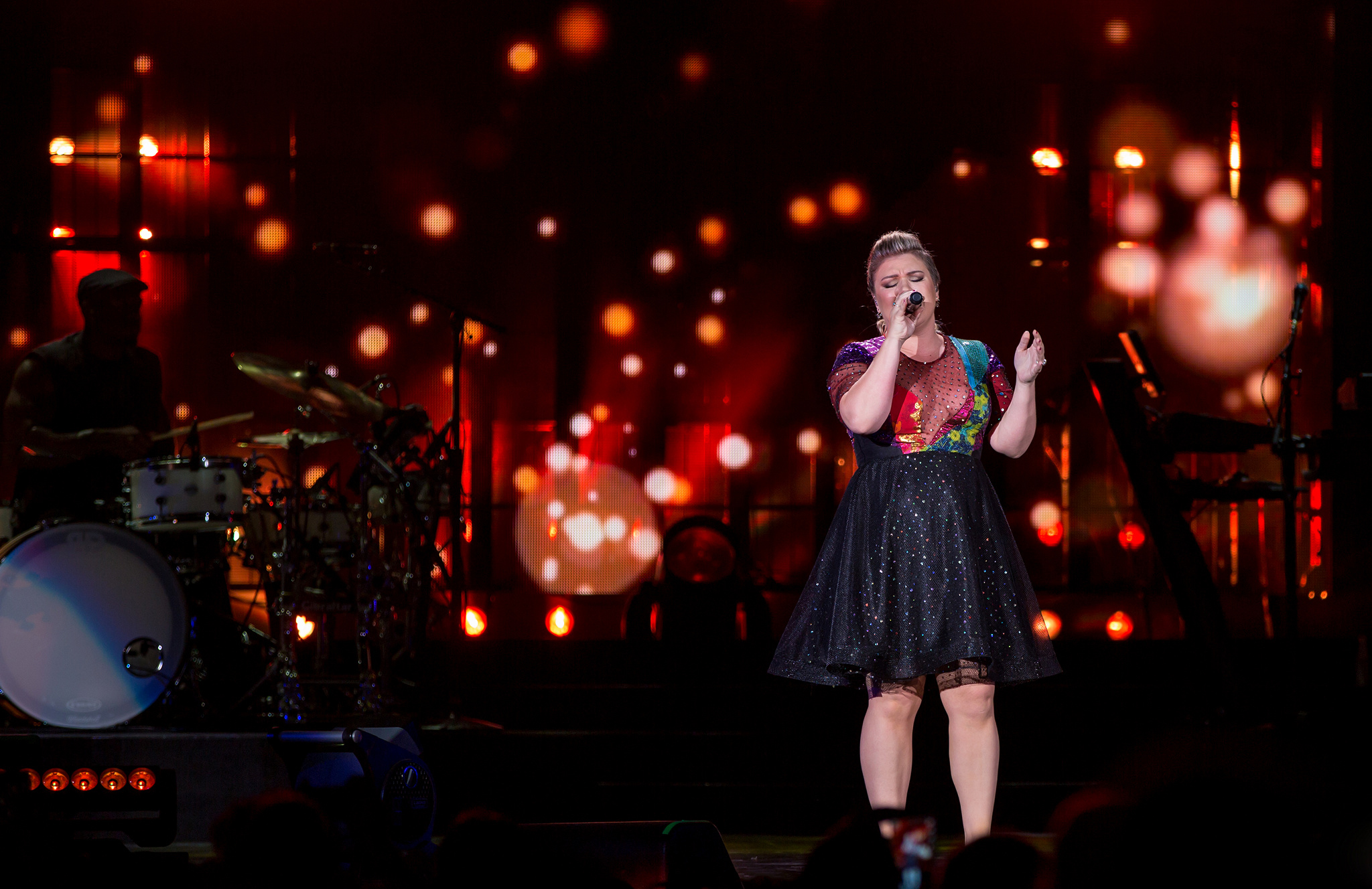 Kelly Clarkson performing on stage during the 2015 Piece By Piece Tour held at the Austin360 Amphitheater in Austin, Texas on August 29, 2015.